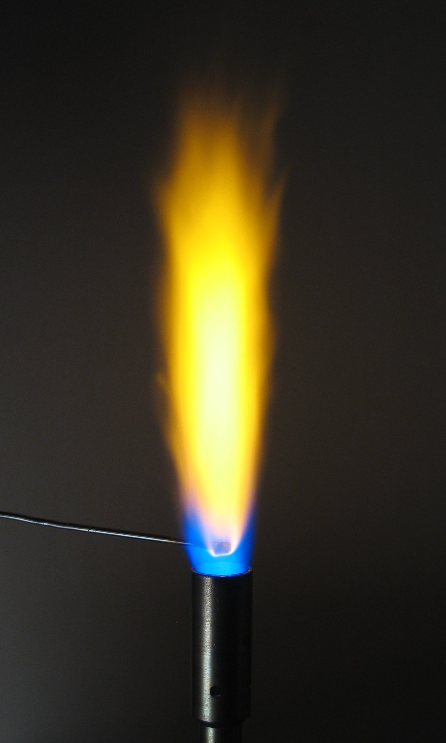 The flame test for sodium displays a brilliantly bright yellow emission due to the so called "sodium D-lines" at 588.9950 and 589.5924 nanometers.